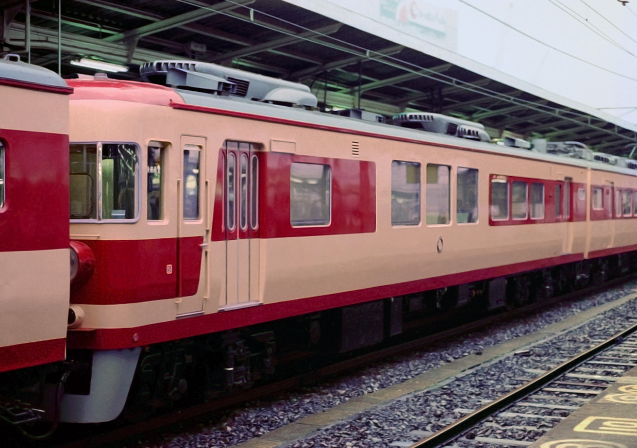 The Japanese National Railways imperial train coach KuRo 157 in its original livery at Shinagawa Station. This car was built in 1960 and was repainted into an ivory and green livery in 1985 to match the 185 series EMUs into which it was inserted. It is owned by East Japan Railway Company now, but has not been used for a long period.